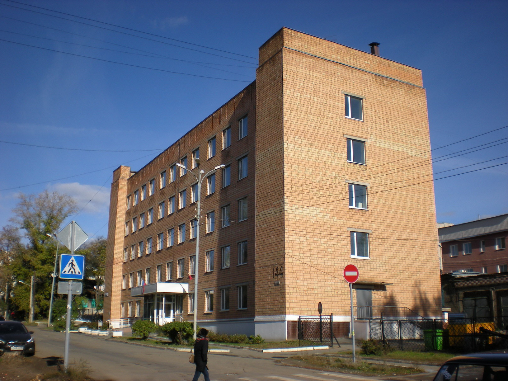 The Ministry of Health and the Ministry of Industry and Energy of Udmurt RepublicУдмурт: Удмурт Республикалэн Тазалыкез утёнъя министерствоезлэн но Промышленностья но энергетикая министерствоезлэн юртсы